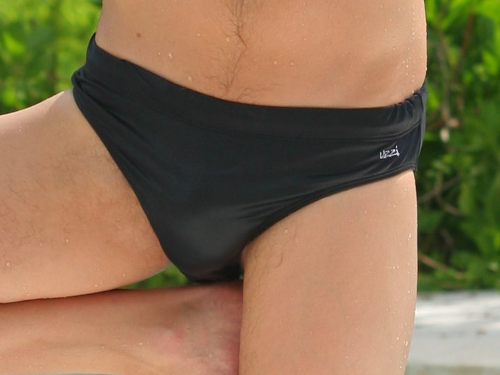 A man makes a "tree pose" in a pair of Uzzi swim briefs.